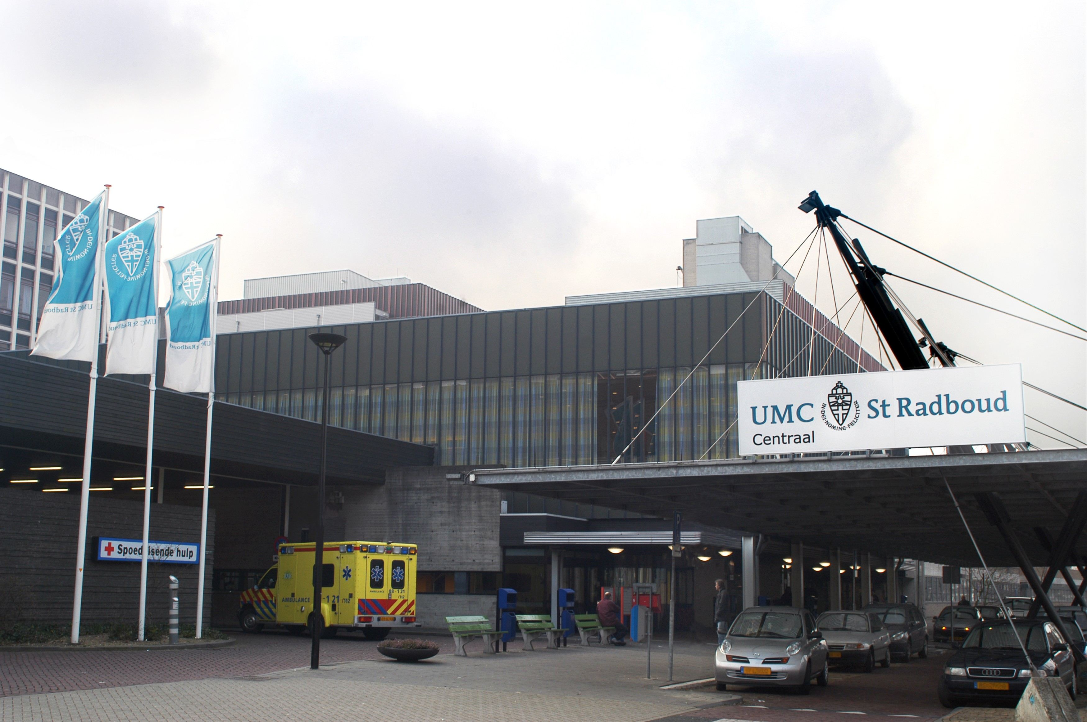 Main entrance of the Radboud University Nijmegen Medical Centre in Nijmegen, the Netherlands